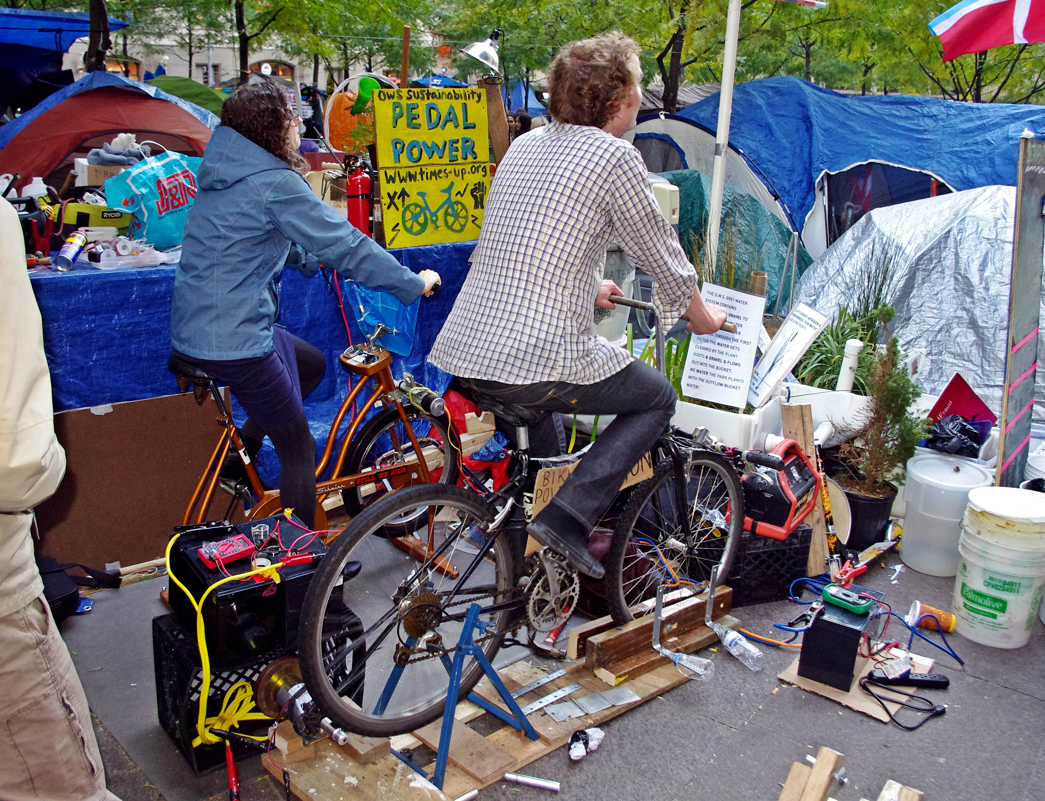 Photos from Zuccotti Park on Wednesday, November 2, Day 47 of Occupy Wall Street.